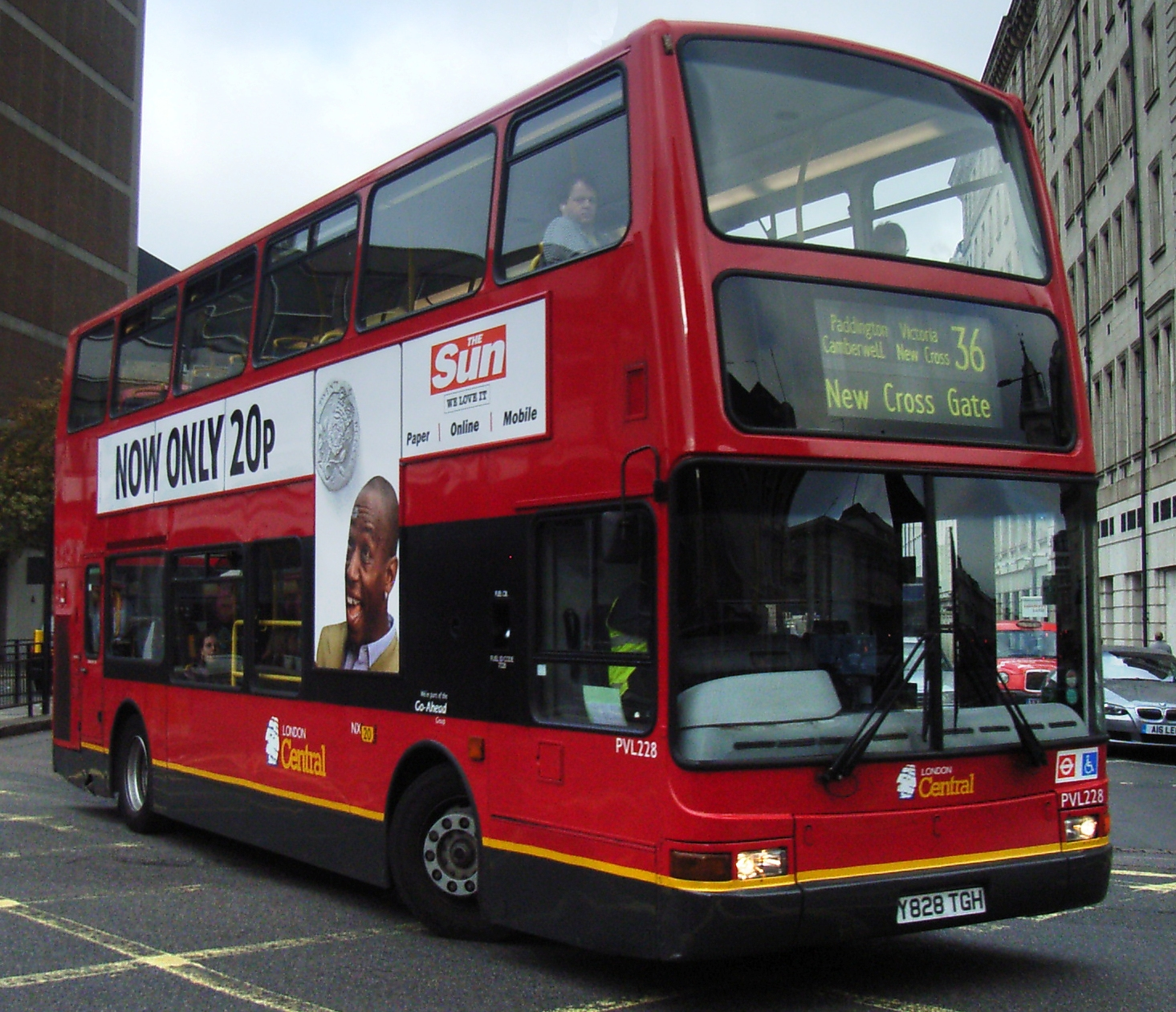 A London Central Volvo B7TL/Plaxton President on London Buses route 36, in Paddington, London.